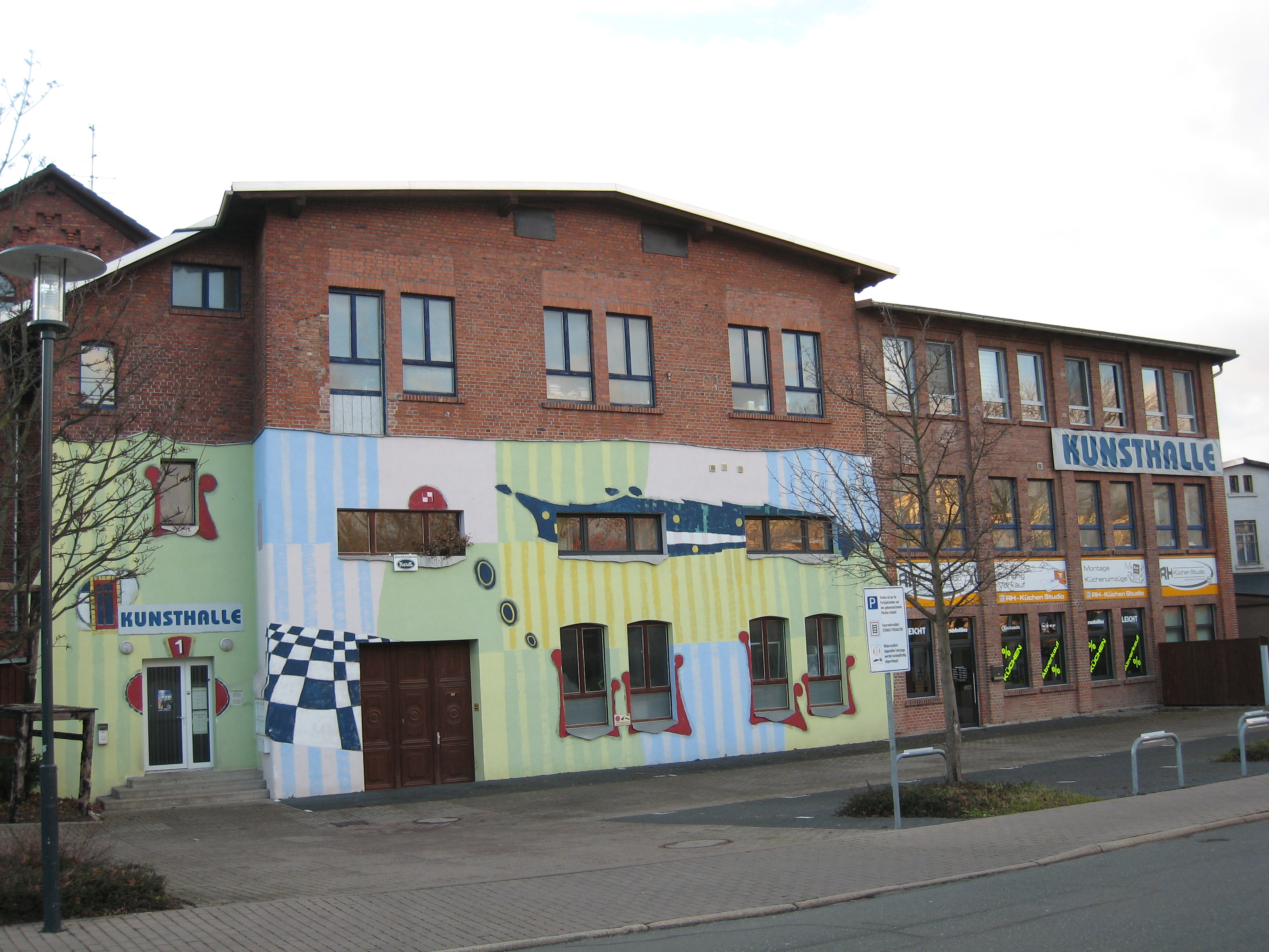 Art Hall Arnstadt, Angelhauser Strasse 1